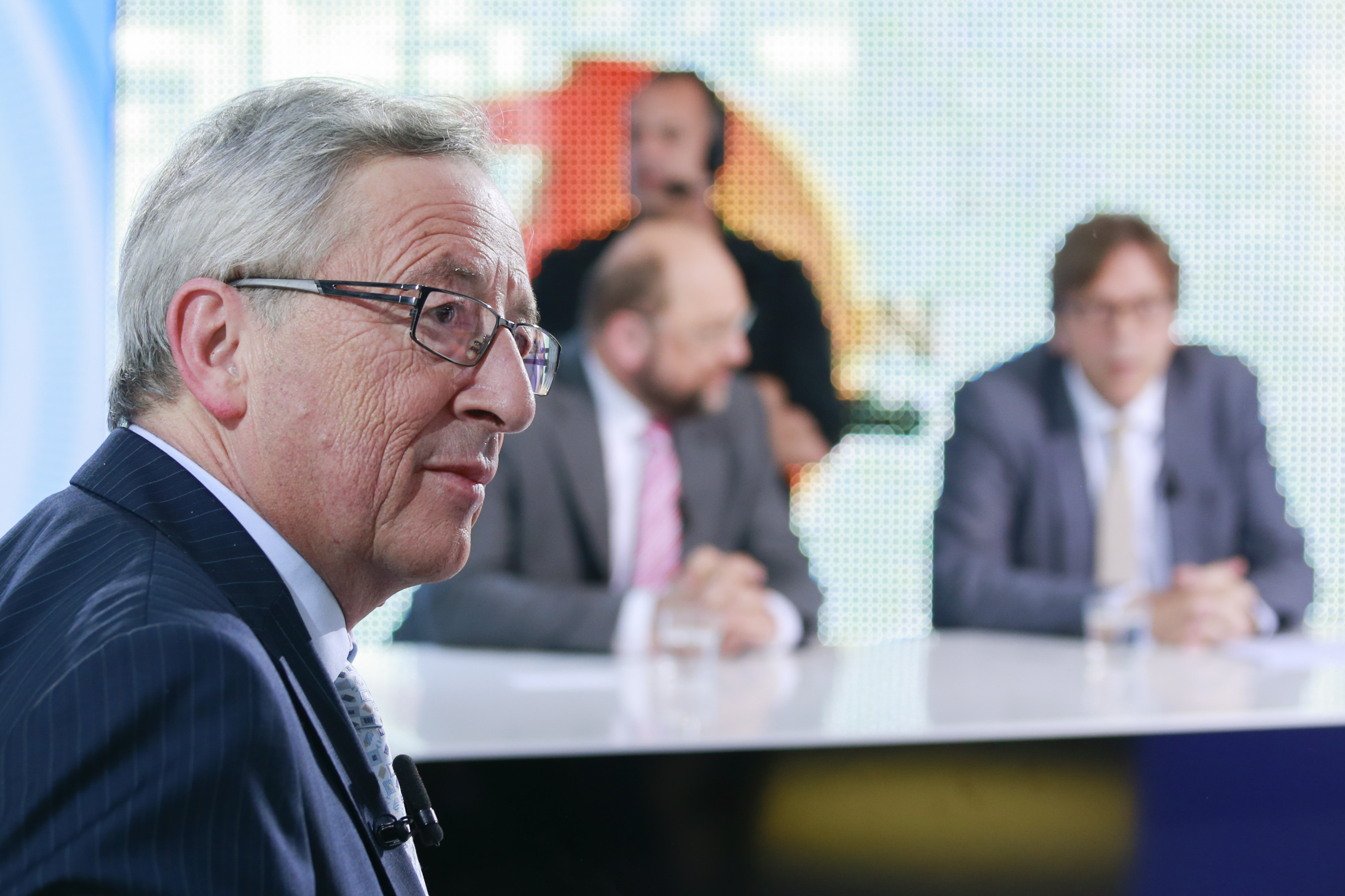 Who will be the next president of the European Commission? And how will he – or she – deal with the big election issues, like mobility, energy and unemployment? With just weeks to go before the EU-wide election in May, Euranet Plus talk directly with the top candidates. On April 29, the presidential hopefuls came together to answer these questions and more, outlining their plans for the next five years. Guests - Jean-Claude Juncker (European People’s Party), - Ska Keller (European Green Party), - Martin Schulz (Party of European Socialists) and - Guy Verhofstadt (Alliance of Liberals and Democrats for Europe) Moderators: - Brian Maguire - Ahinara Bascuñana López The videos, audios and all the details about the Big Crunch debate at